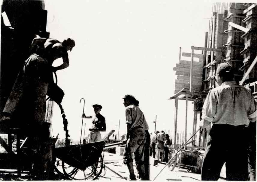 Novi Beograd - Youth and other voluntary work brigades on the construction site of New BelgradeLegacy of Slobodan Bosiljcic, 4327/28